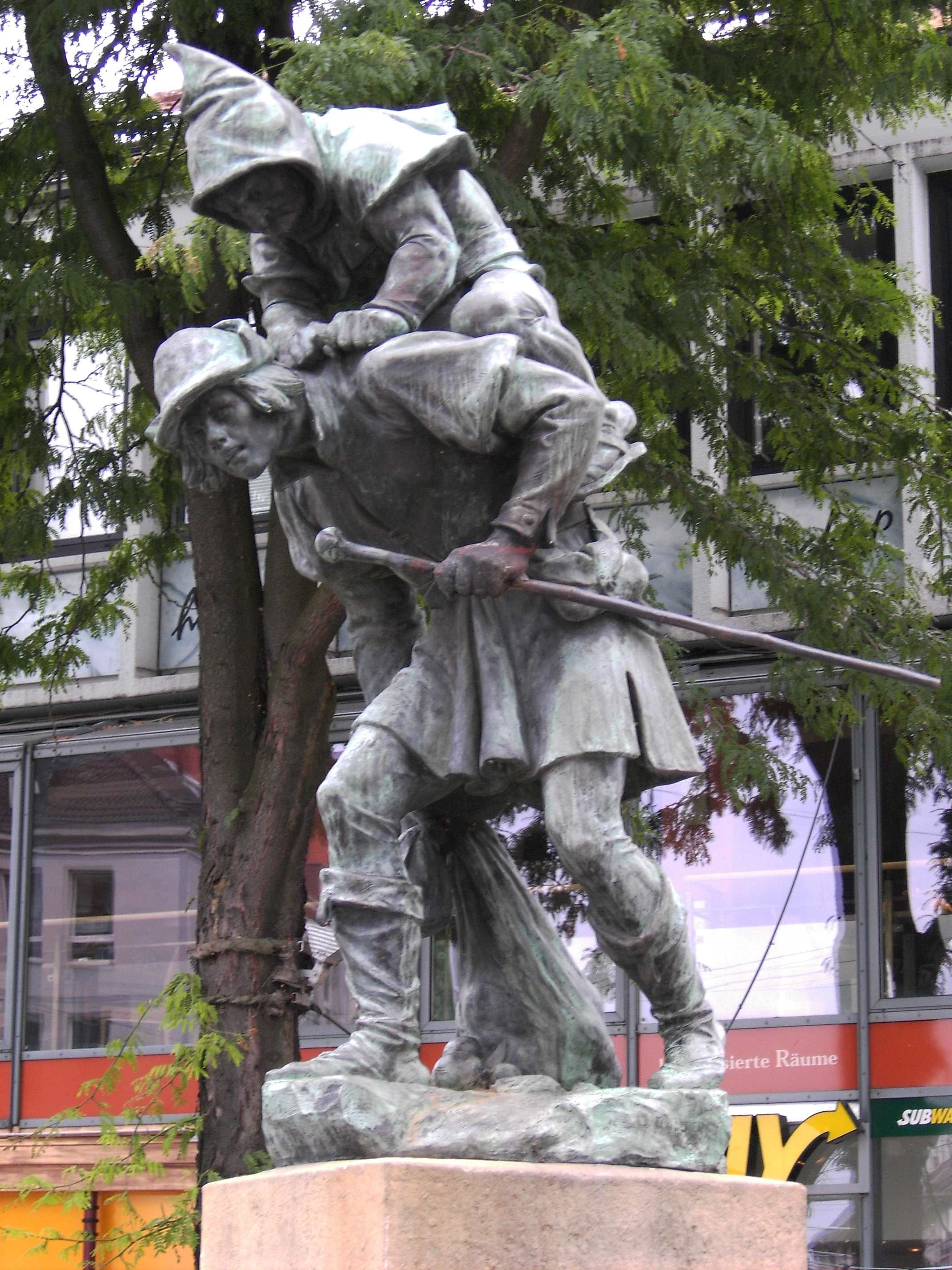 Hildesheim, Hoher Weg, „Huckup“ statue (lit. „Jump-on [the back]“), local legend. — Inscription (on the pedestal, not visible here): File:Huckup.jpg